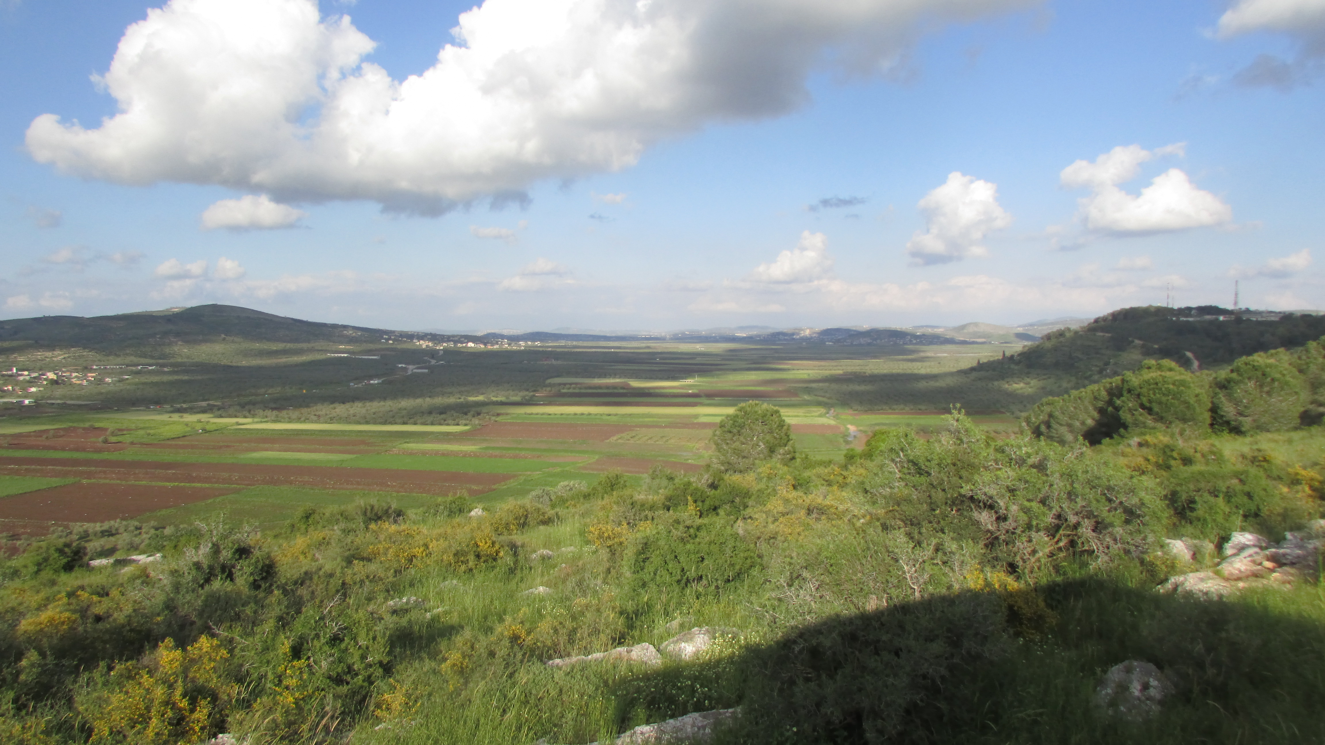 Dothan Valley from Meoz Zvi. View to the east.